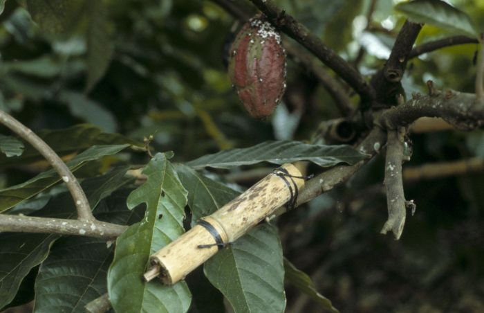 Bamboo container setting out black ants to fight vermin at a cacao plantation near Medan